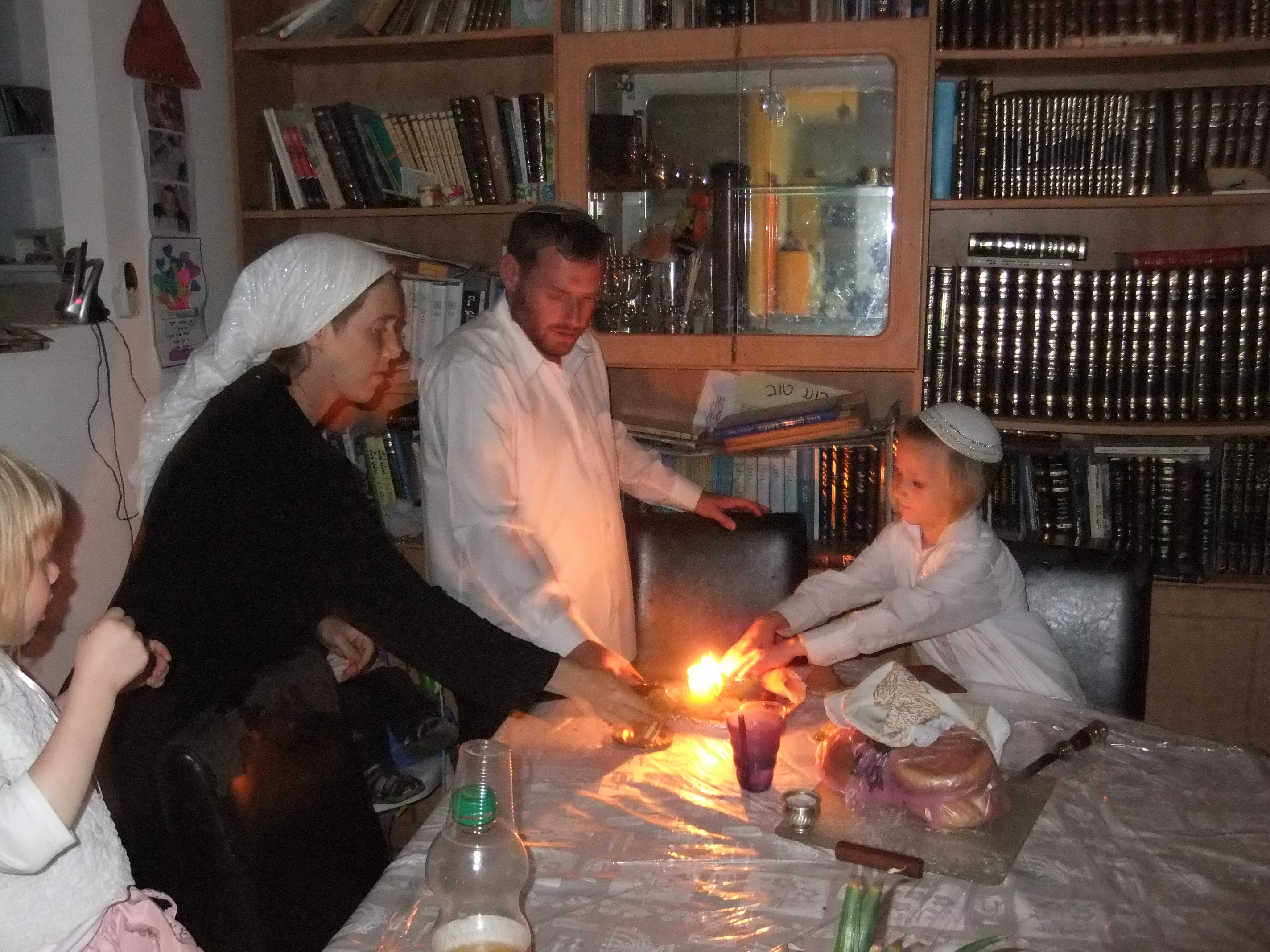 Havdalah